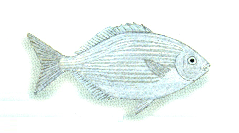 Kyphosus_cinerascens